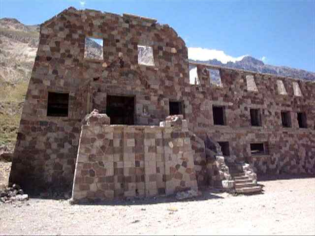 Ruins of Sosneado Hot Springs Hotel in montanosa area of the district of San Rafael Department, Mendoza Province, ArgentinaLatviešu: Sosneallo karsto avotu spa viesnīcas drupas, Argentīna